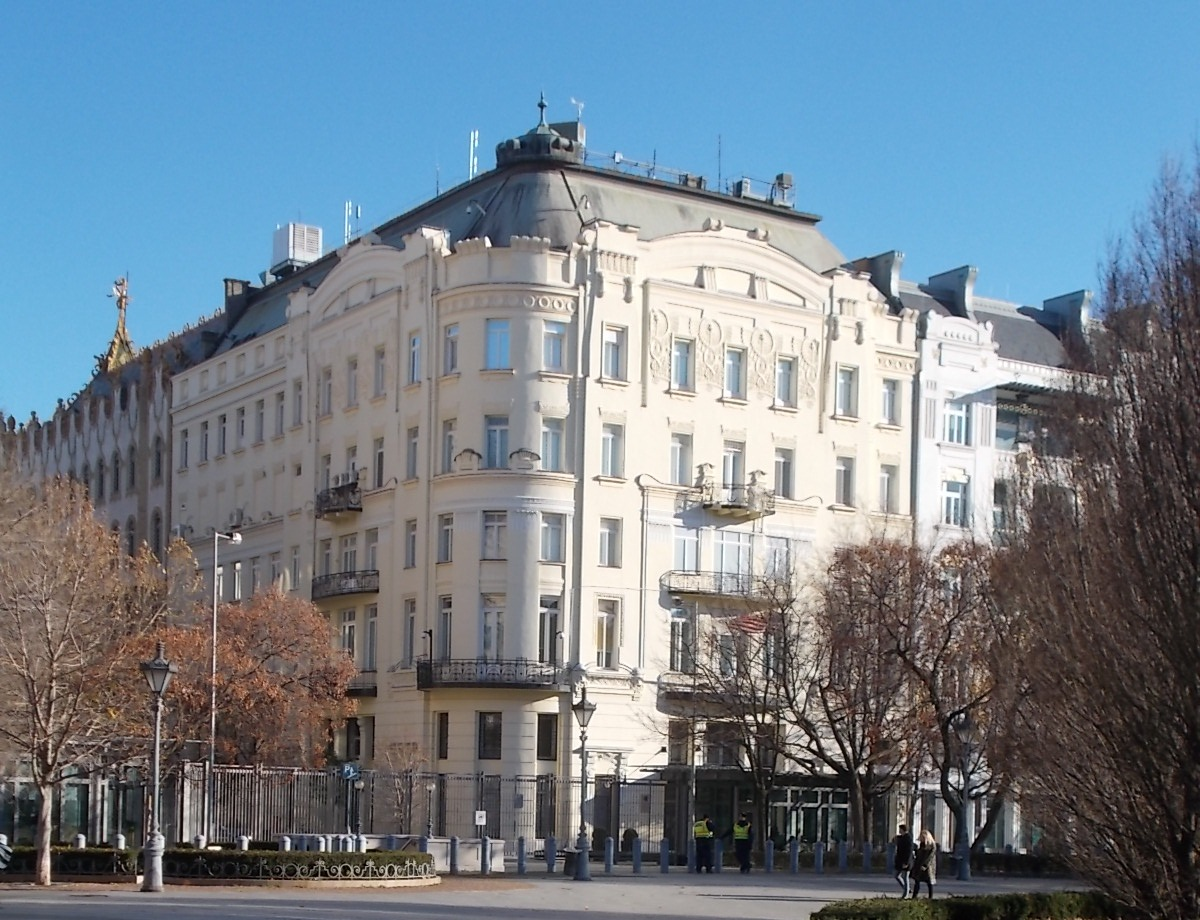 Embassy of the United States of America. - 12 Szabadság Square, Lipótváros neighbourhood, District V, Budapest.